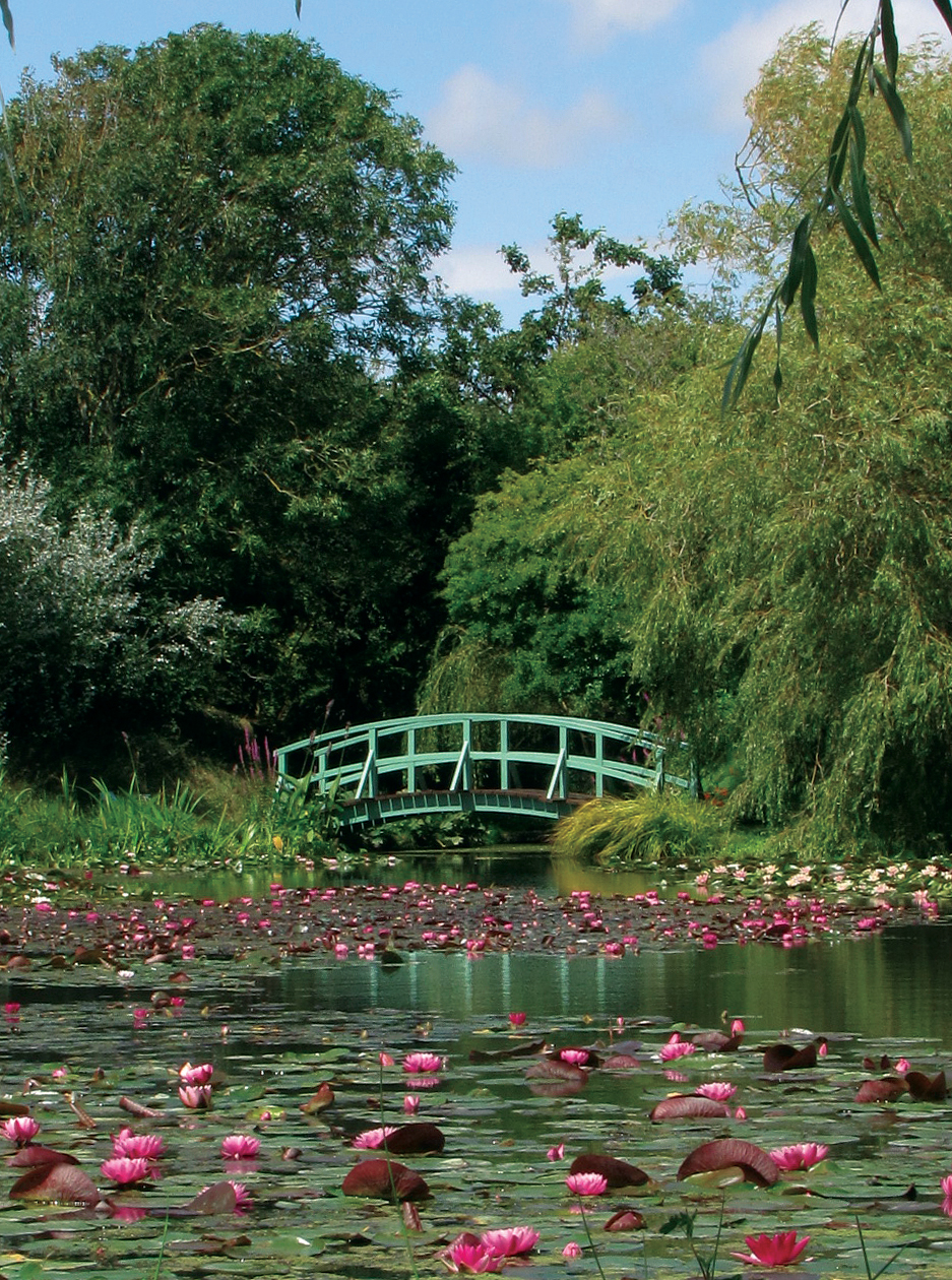 A view of the Monet Bridge at Bennetts Water Gardens. The garden, which was opened in 1959, contains collections of water lilies, and is a popular visitor attraction.